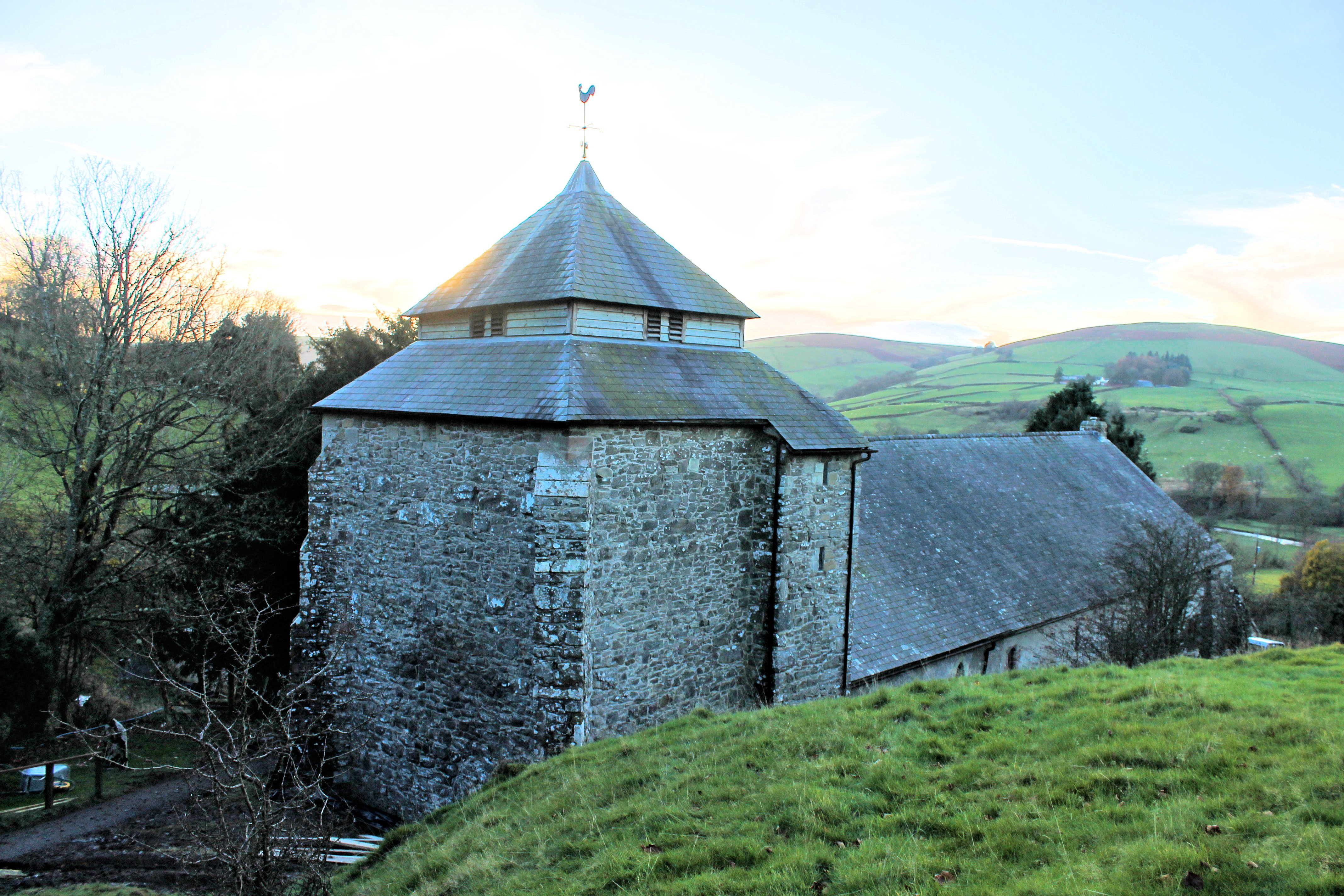 Llanbister is a small village and community in Powys, mid Wales. St Cynllo is a Grade II* listed church from the early 14th century.